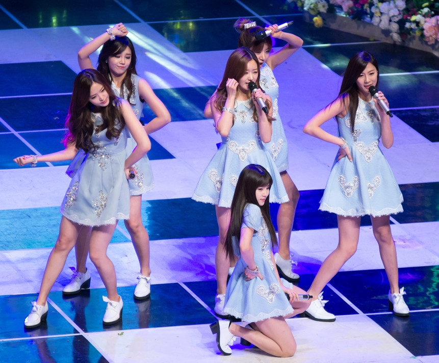 A Pink on February 8, 2014. Left to right: Naeun, Eunji, Bomi, Namjoo, Hayoung, and Chorong (kneeling).